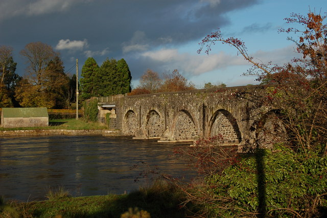 The Kilrea Bridge The Kilrea Bridge carries the road from Kilrea to Rasharkin across the River Bann north east of Kilrea. It is fairly narrow and is now controlled by traffic lights. This is the view towards Rasharkin with the river flowing from right to left.